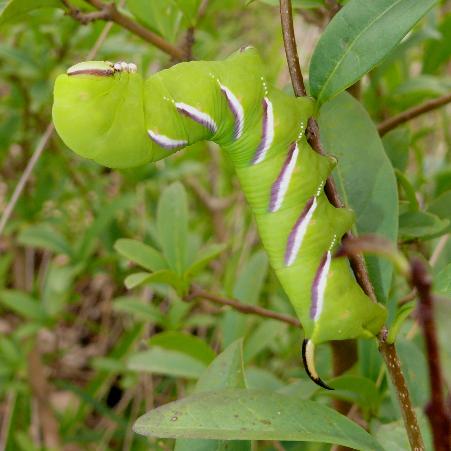 Sphinx ligustri